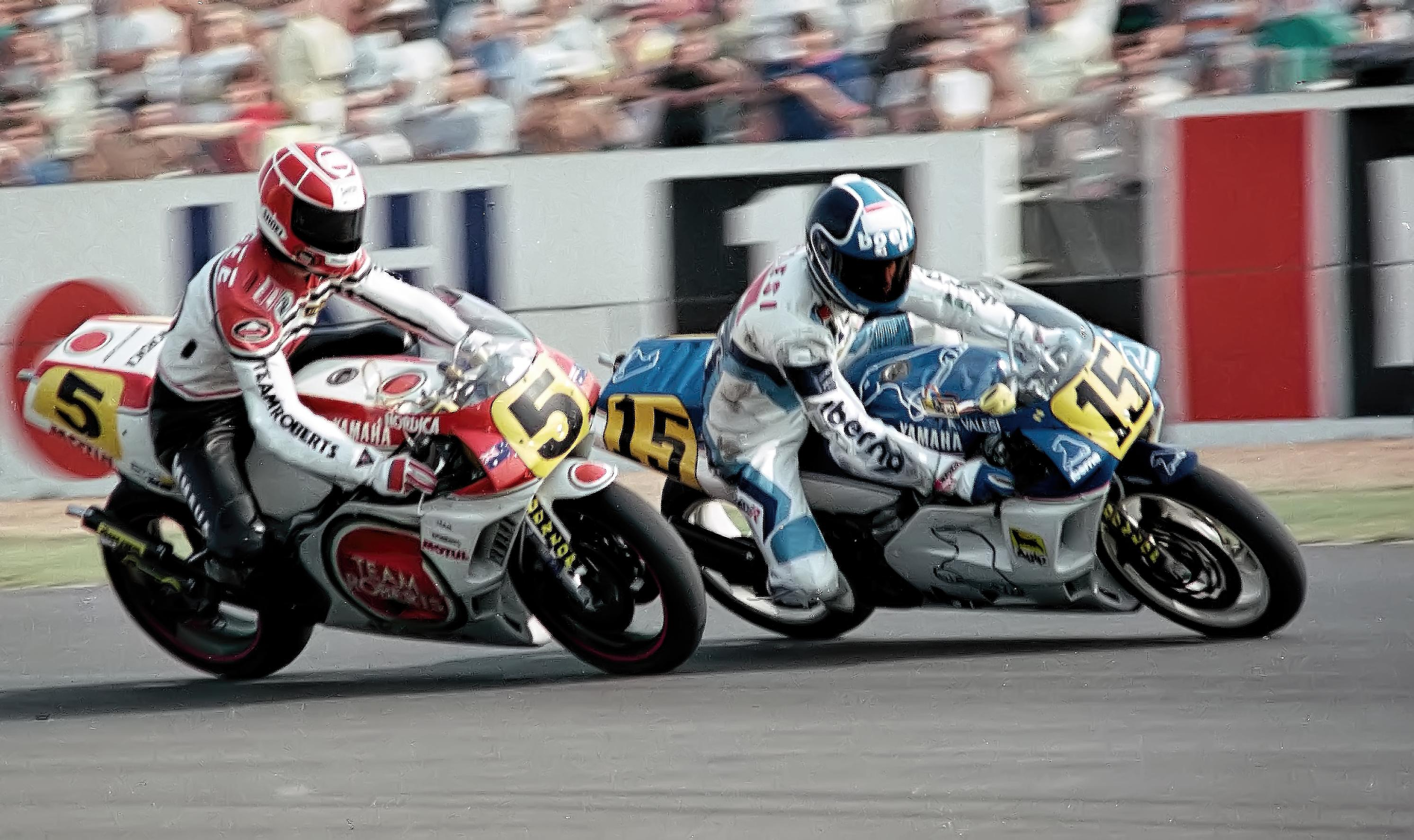 Kevin Magee, riding his Lucky Strike Roberts Yamaha, battling with the Team Iberia Yamaha of Alessandro Valesi at the 1989 British Grand Prix.